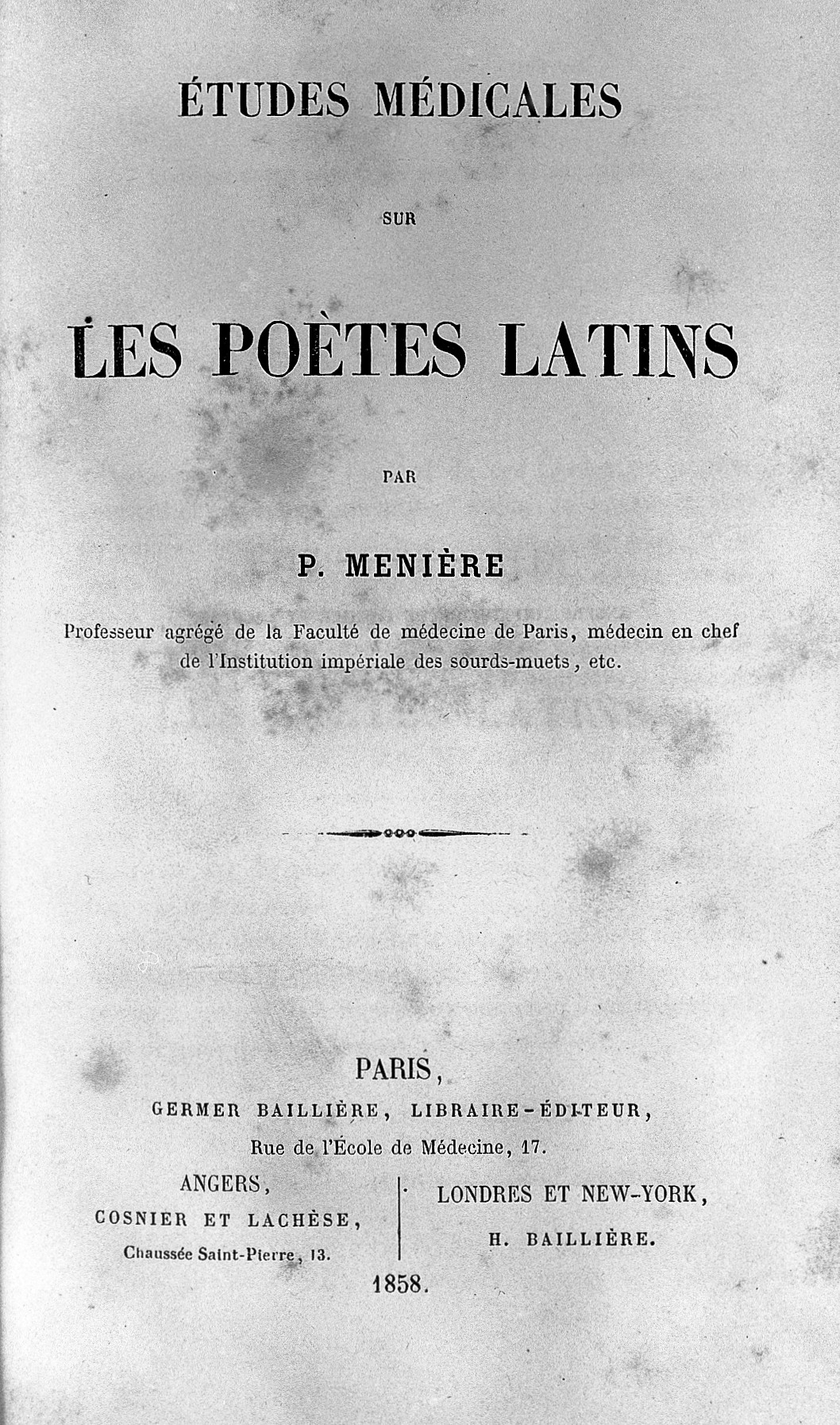 General Collections